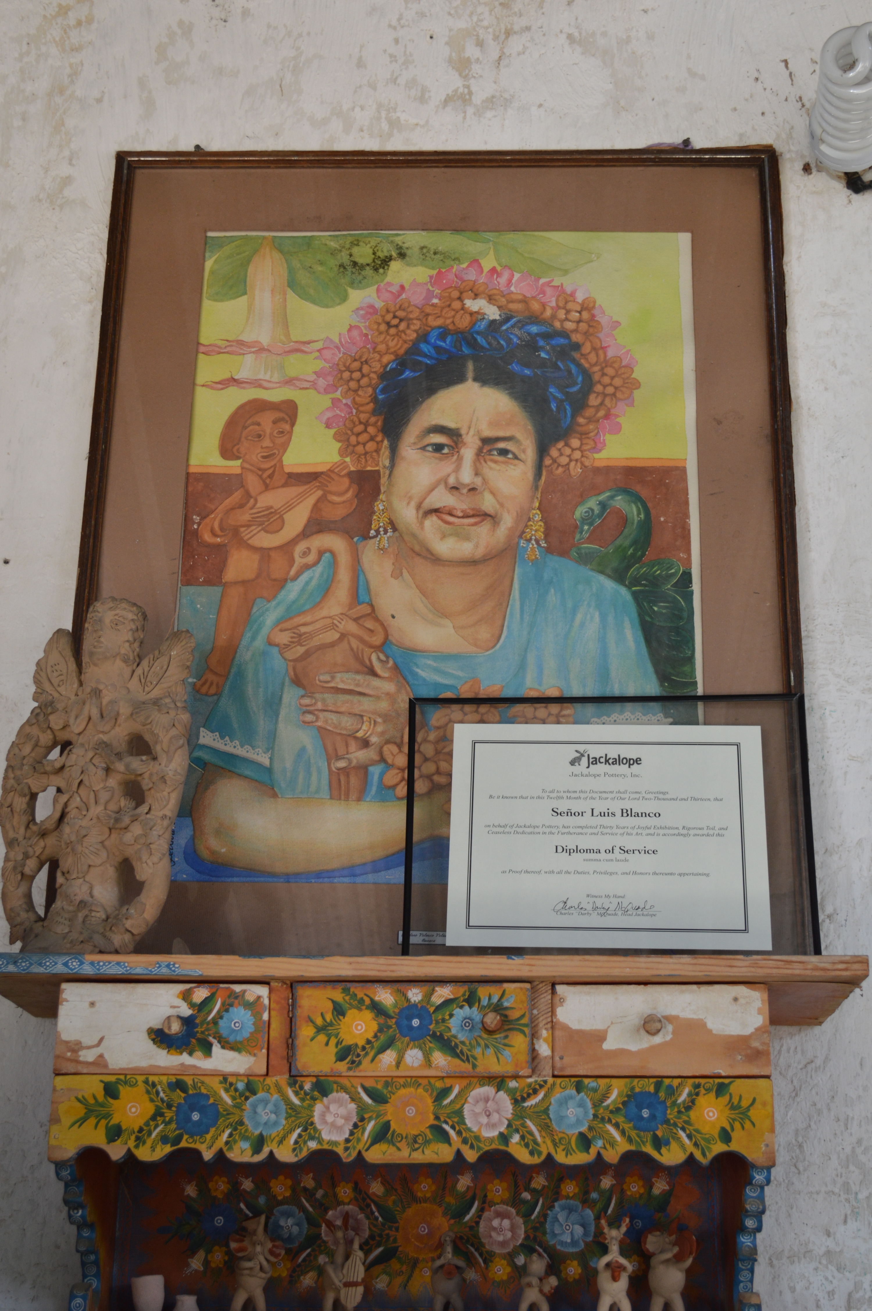 altar to Teodora Blanco Nunez at the family workshop in Santa Maria Atzompa, Oaxaca, Mexico